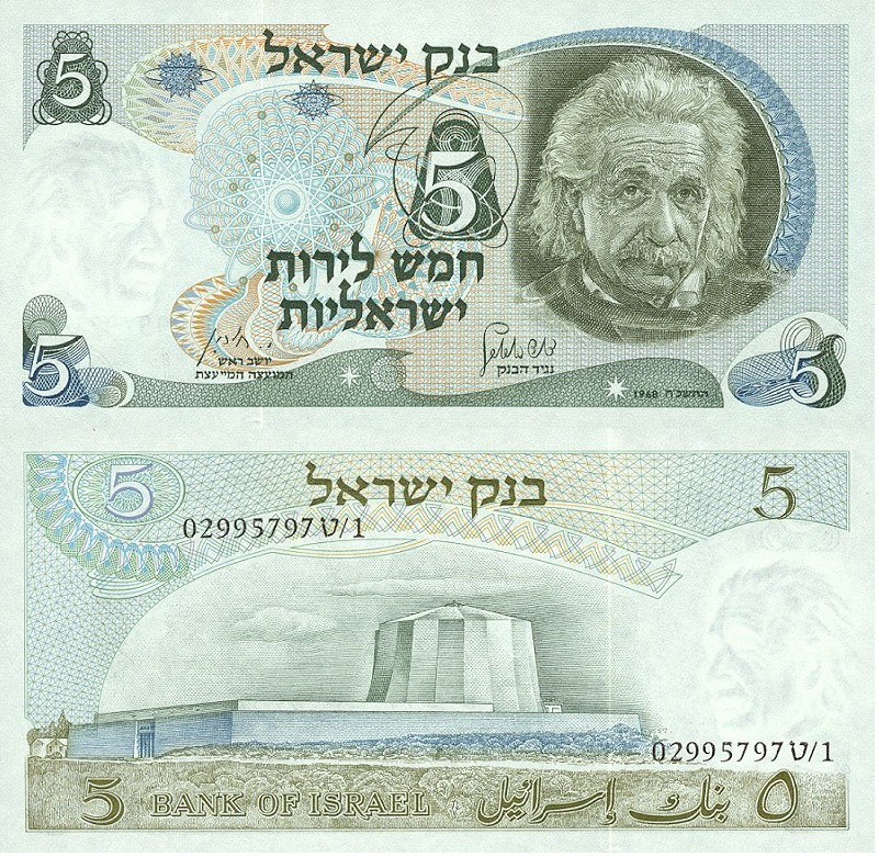 Obverse & Reverse side of a 5 lirot bill, paper.